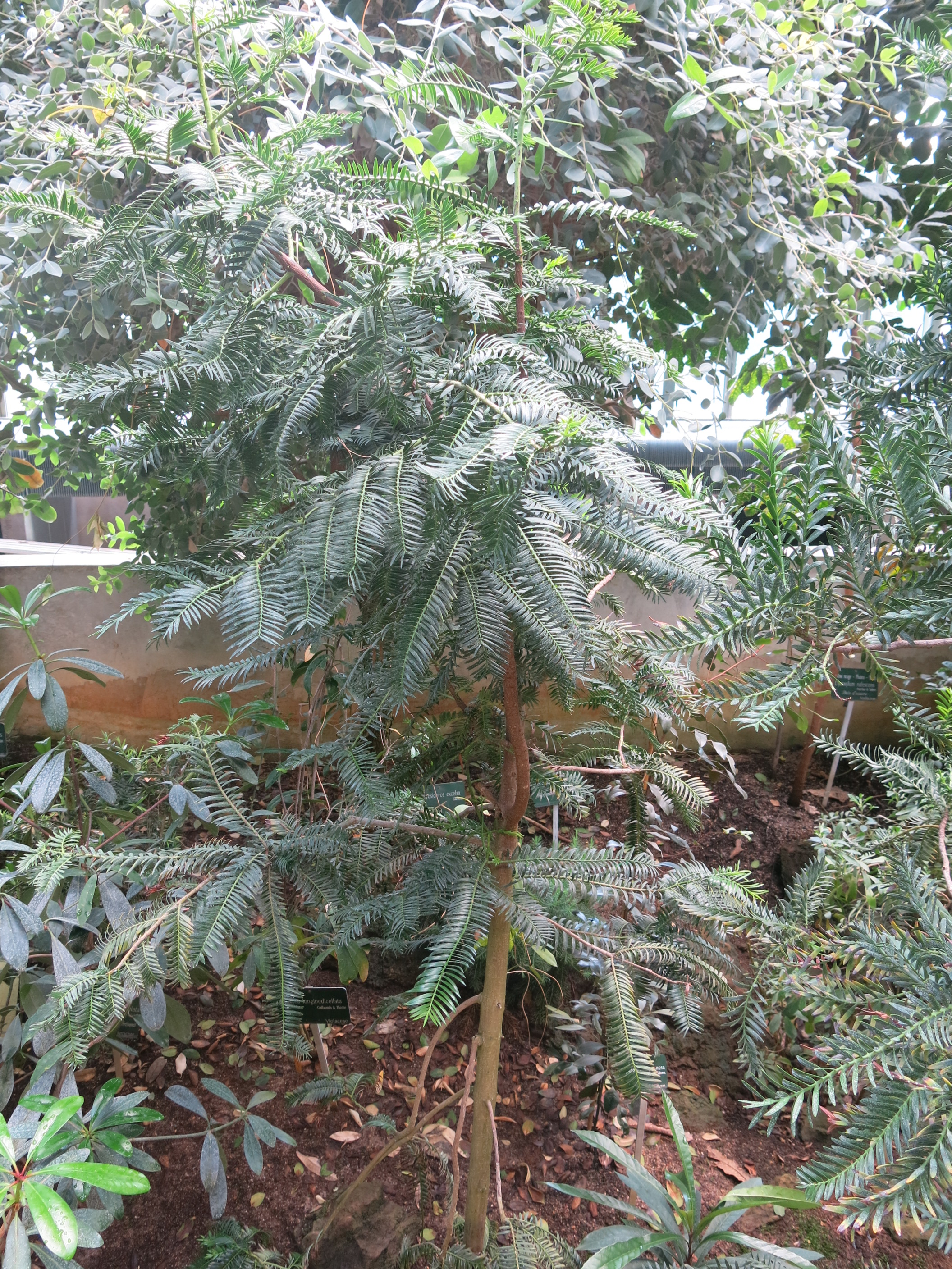 Retrophyllum minus (sic !) in the greenhouses of the Jardin des Plantes de Paris. Plant identified by its botanic label.